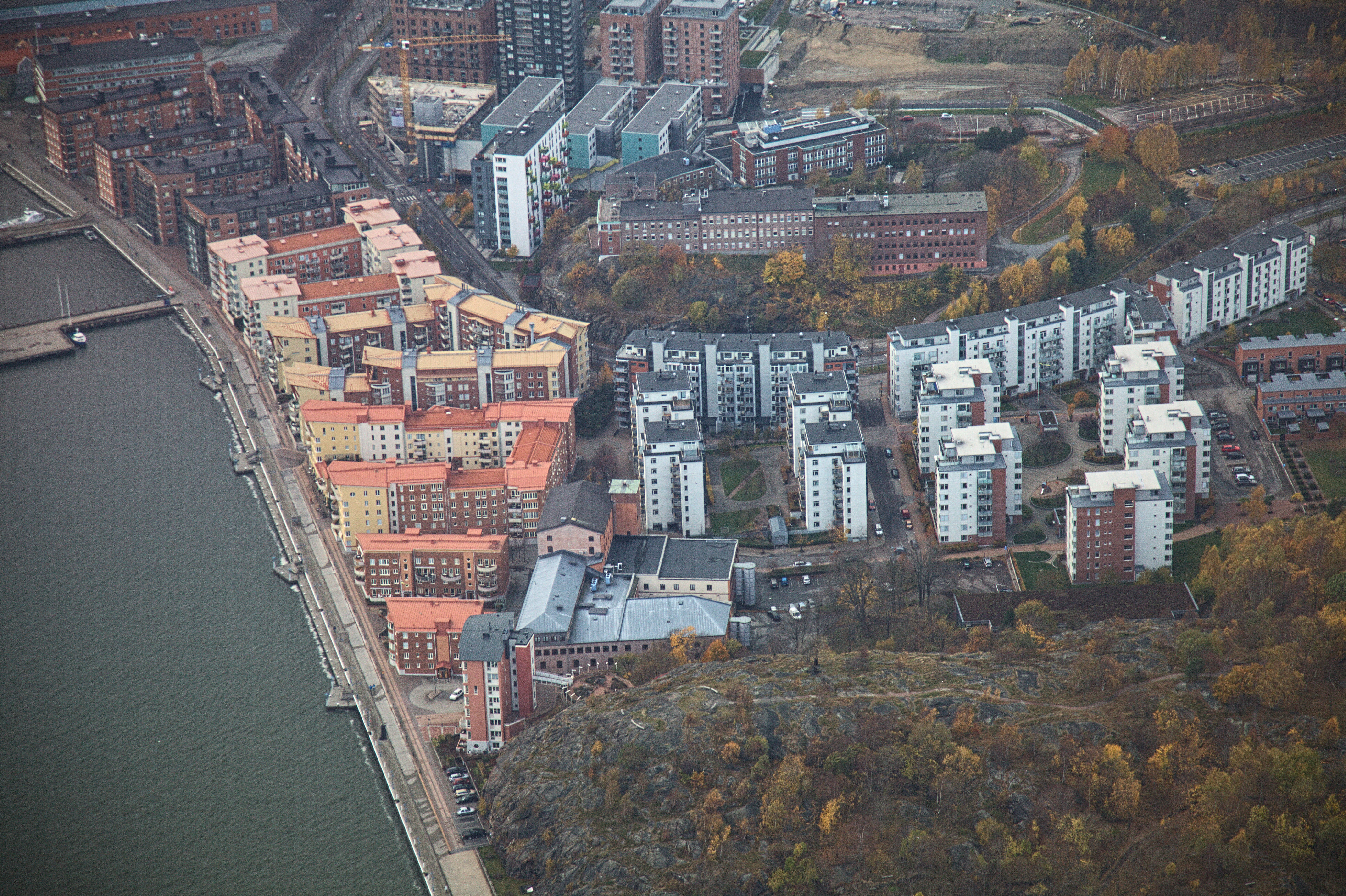 Photo taken on a helicopter over Gothenburg